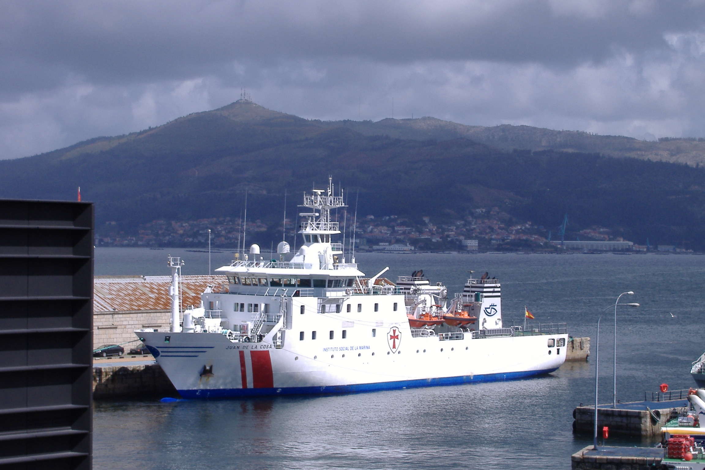 Hospital Ship Juan de la Cosa, property of the Social Marine Institute (Instituto Social de la Marina, ISM), docked in the port of Vigo, on April 30th., 2008, seen from the roof of the A Laxe mall, taken by myself.